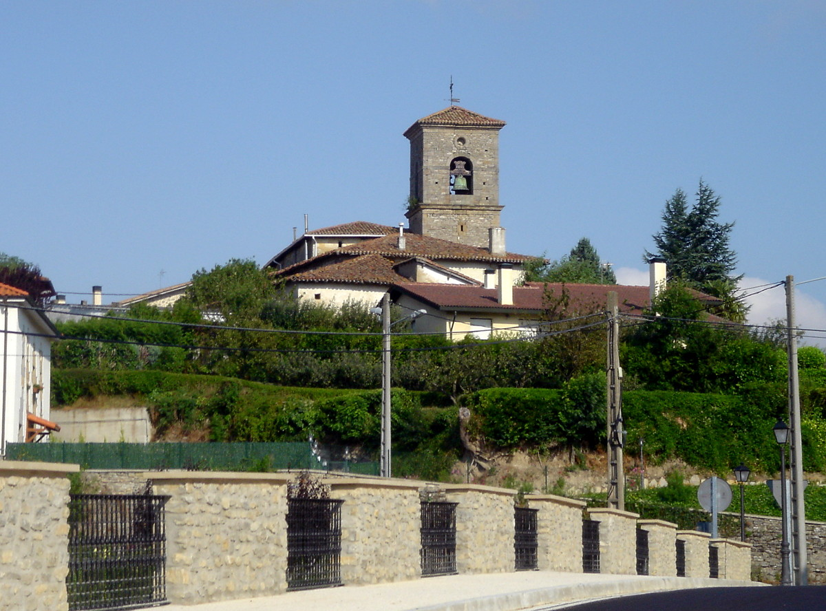 Dura village (Vitoria-Gasteiz, Basque Country, Spain)